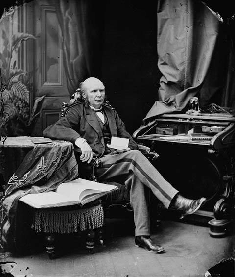 Hon. Frederick B.T. Carter, Premier of Newfoundland, Ottawa, Ontario